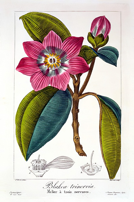 Melier